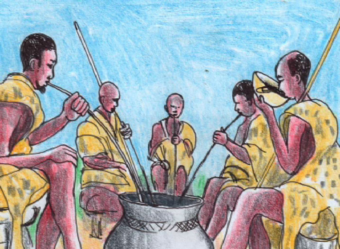 (Bakiga,own work,Edirisa)